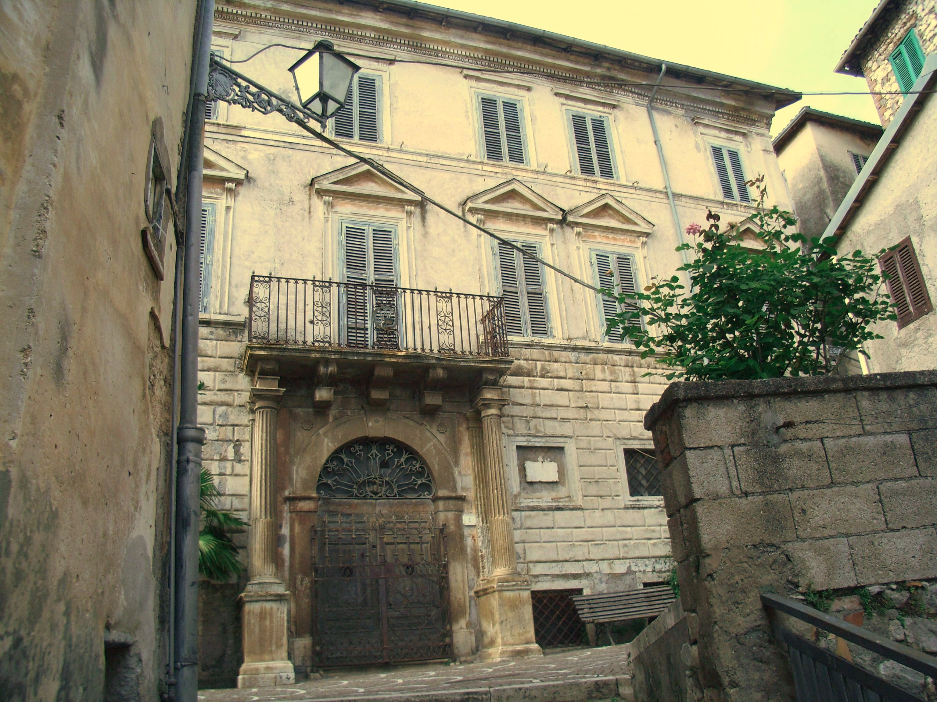 Fiuggi Città